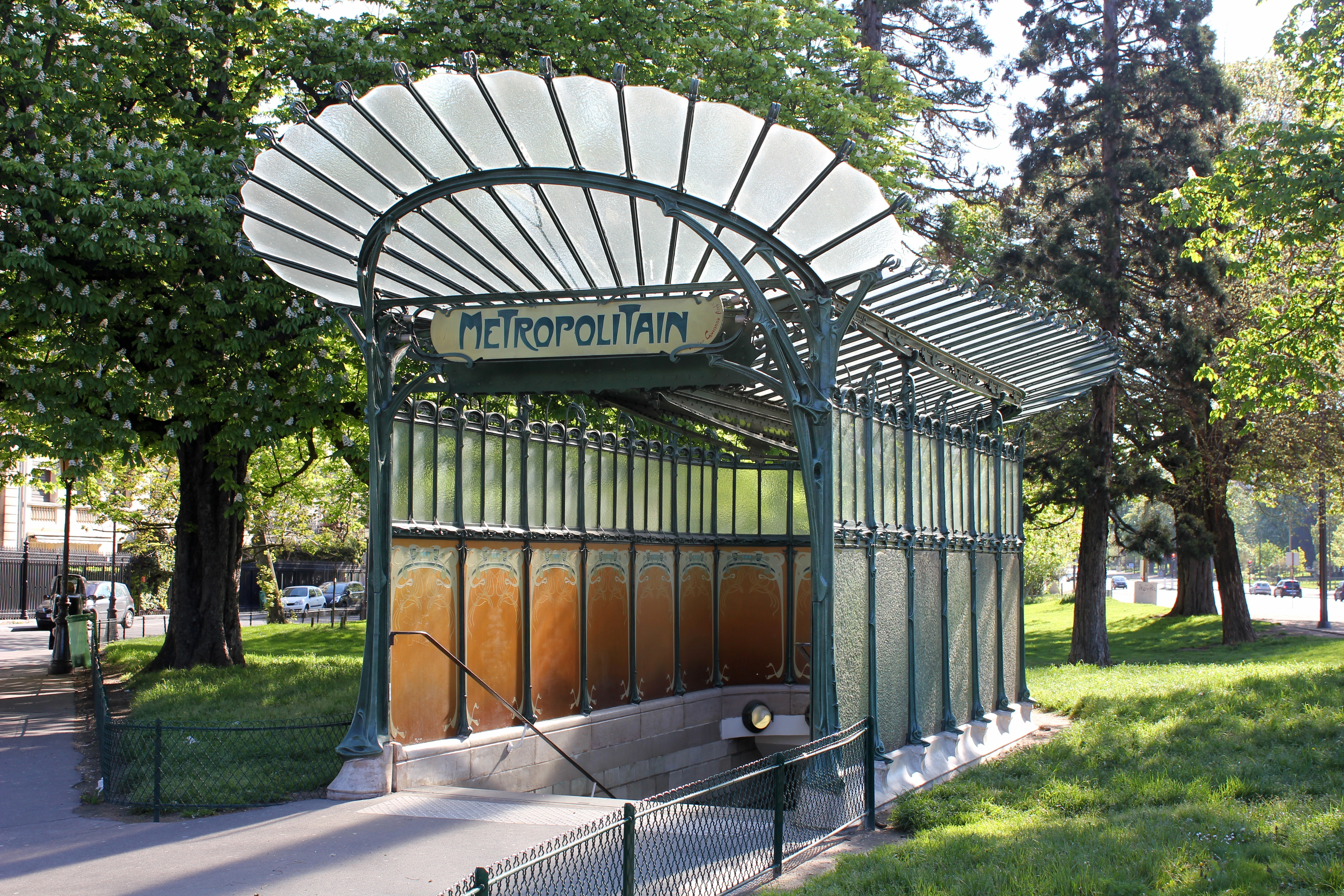 The entrance of metro station Porte Dauphine in Paris 16th arrondissement, France. The building is a work of french architect Hector Guimard.